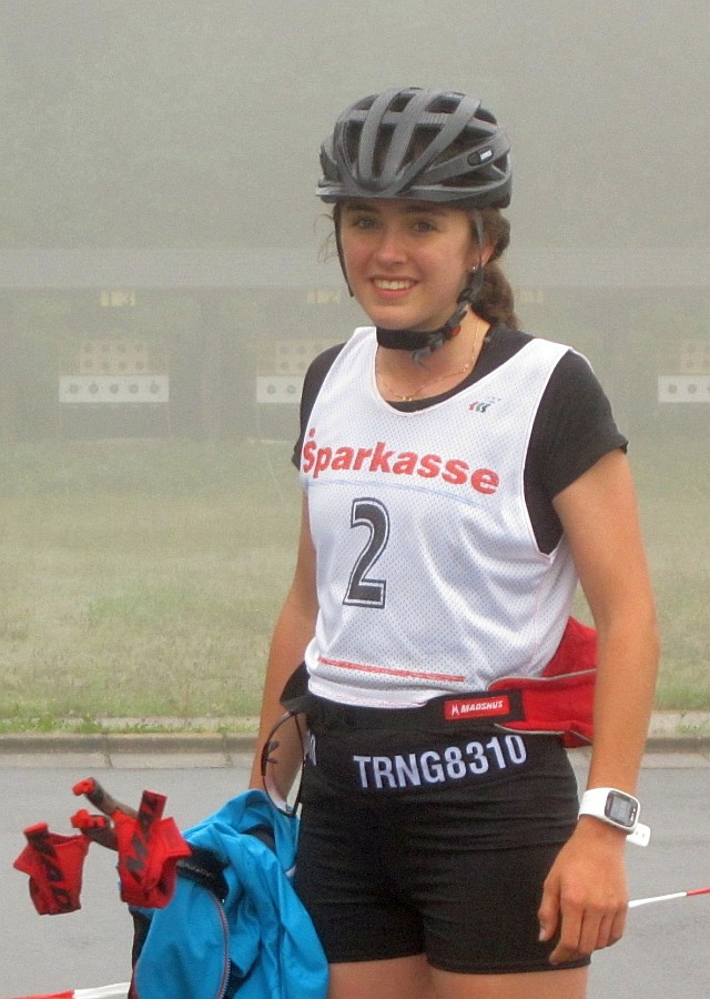 Timna Moser, ski jumper and nordic nombined skier from Austria